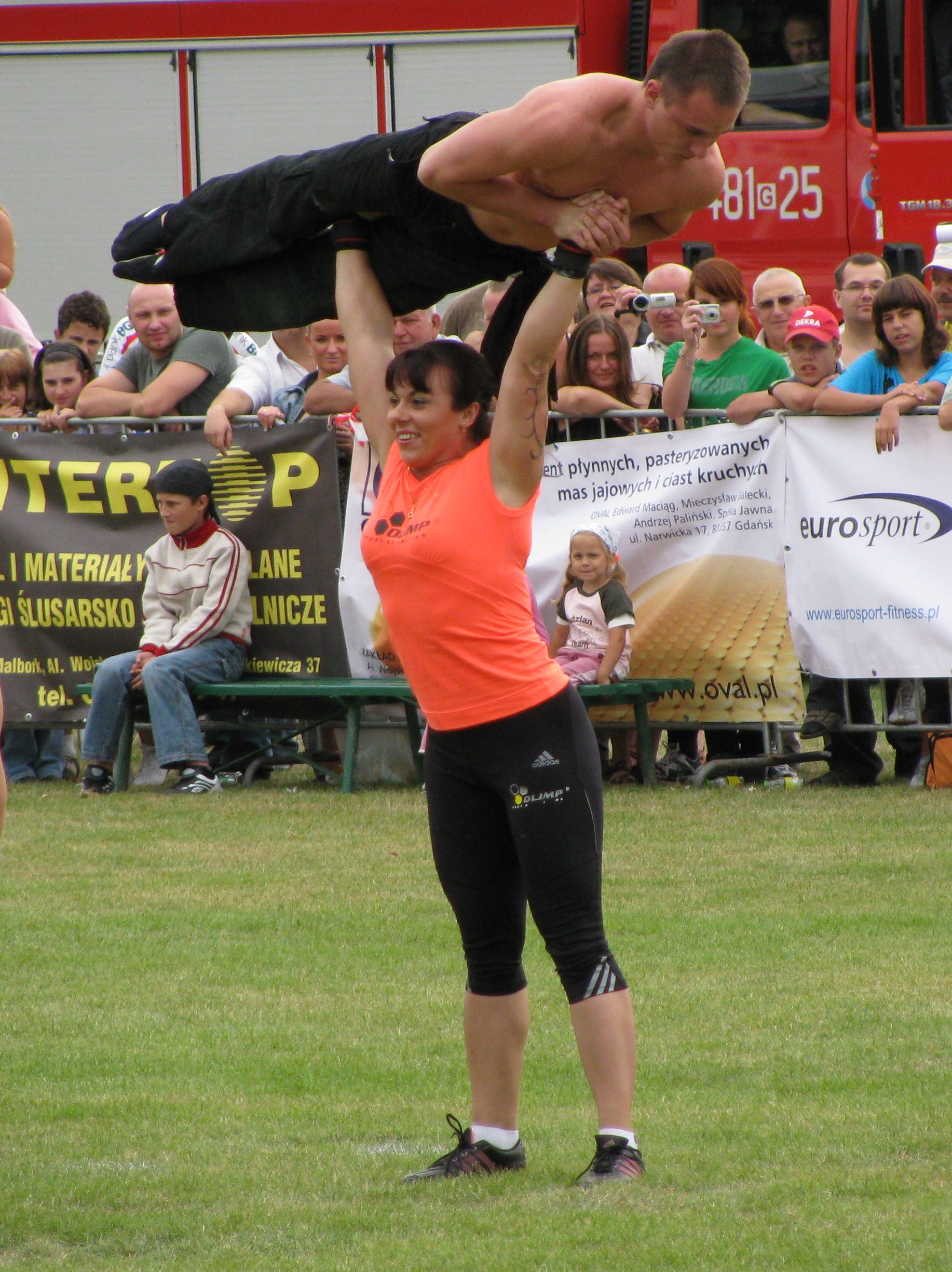 Aneta Florczyk - World's Strongest Woman